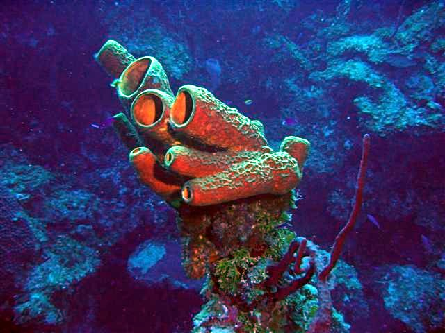 Marine sponge. Color adjusted (but not color accurate) underwater photograph taken by Dlloyd using a digital camera at a depth of approximately 100 feet in Cayman.